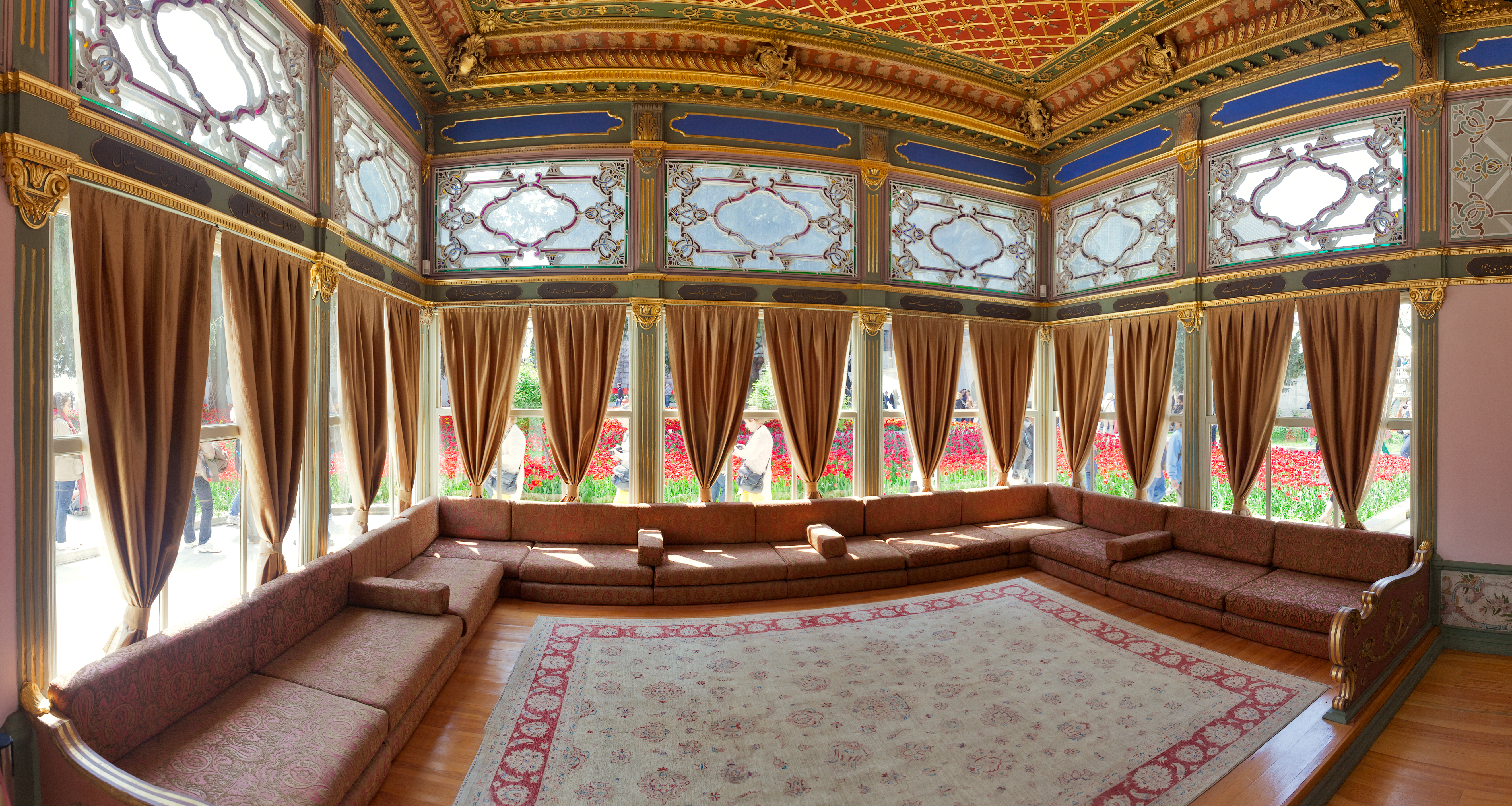 View of internals of the Kara Mustafa Pasha Kiosk at Topkapi palace, Istanbul, Turkey